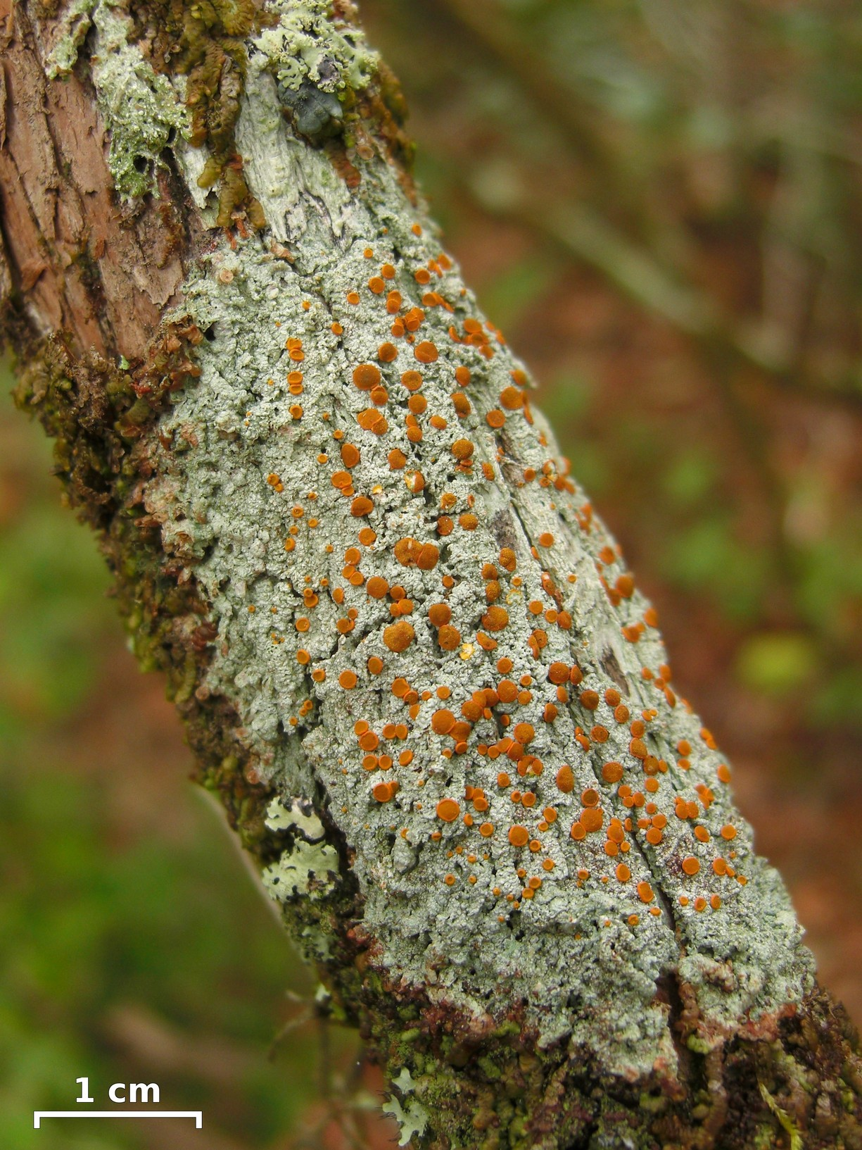 The lichen Brigantiaea leucoxantha (Sprengel) R. Sant. & Hafellner. Photographed growing on oak bark in Ocala National Forest, Marion Co., Florida, USA.